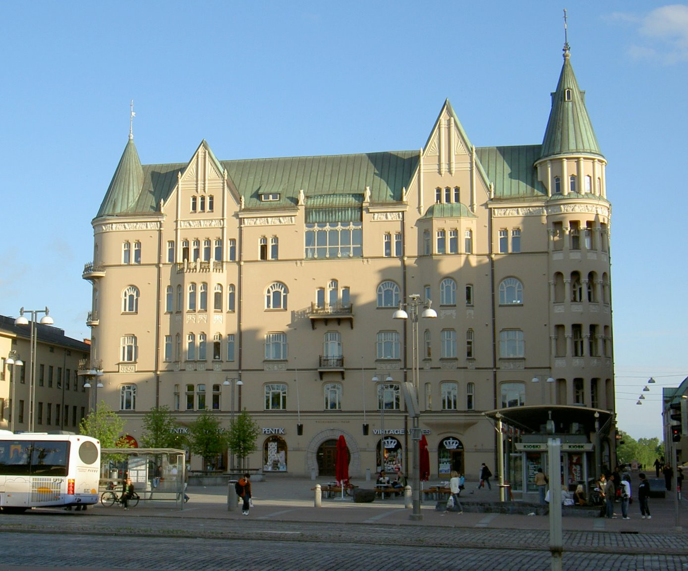 Palanderin talo (Palander -building), Tampere, Finland.